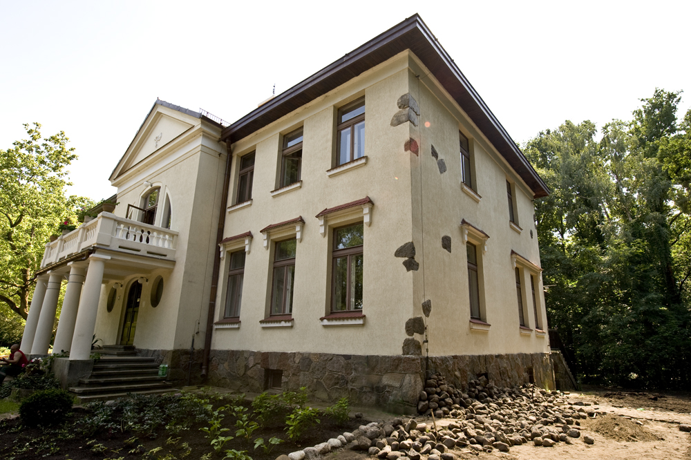 Museum of Jaroslaw Iwaszkiewicz in Podkowa Lesna near Warszawa, Poland (zabytek nr rejestr. 1108/764)